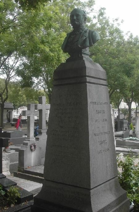 Grave of Émile Egger, Cimetière du Montparnasse, Paris